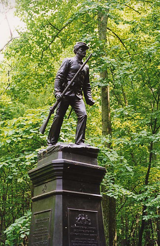 "Skirmishers" monument to the 10th PA Reserve Infantry, 1890 located at Gettysburg Battlefield